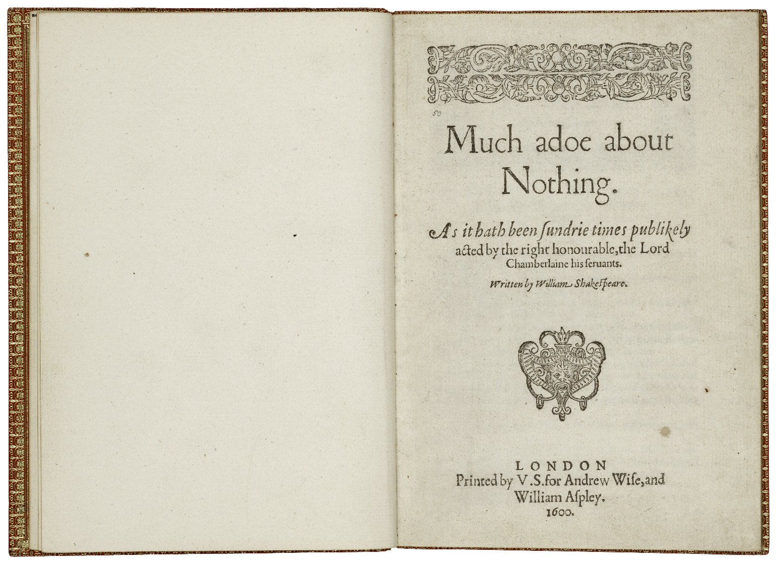 The title page from the first quarto edition of Much Ado About Nothing, printed in 1600.